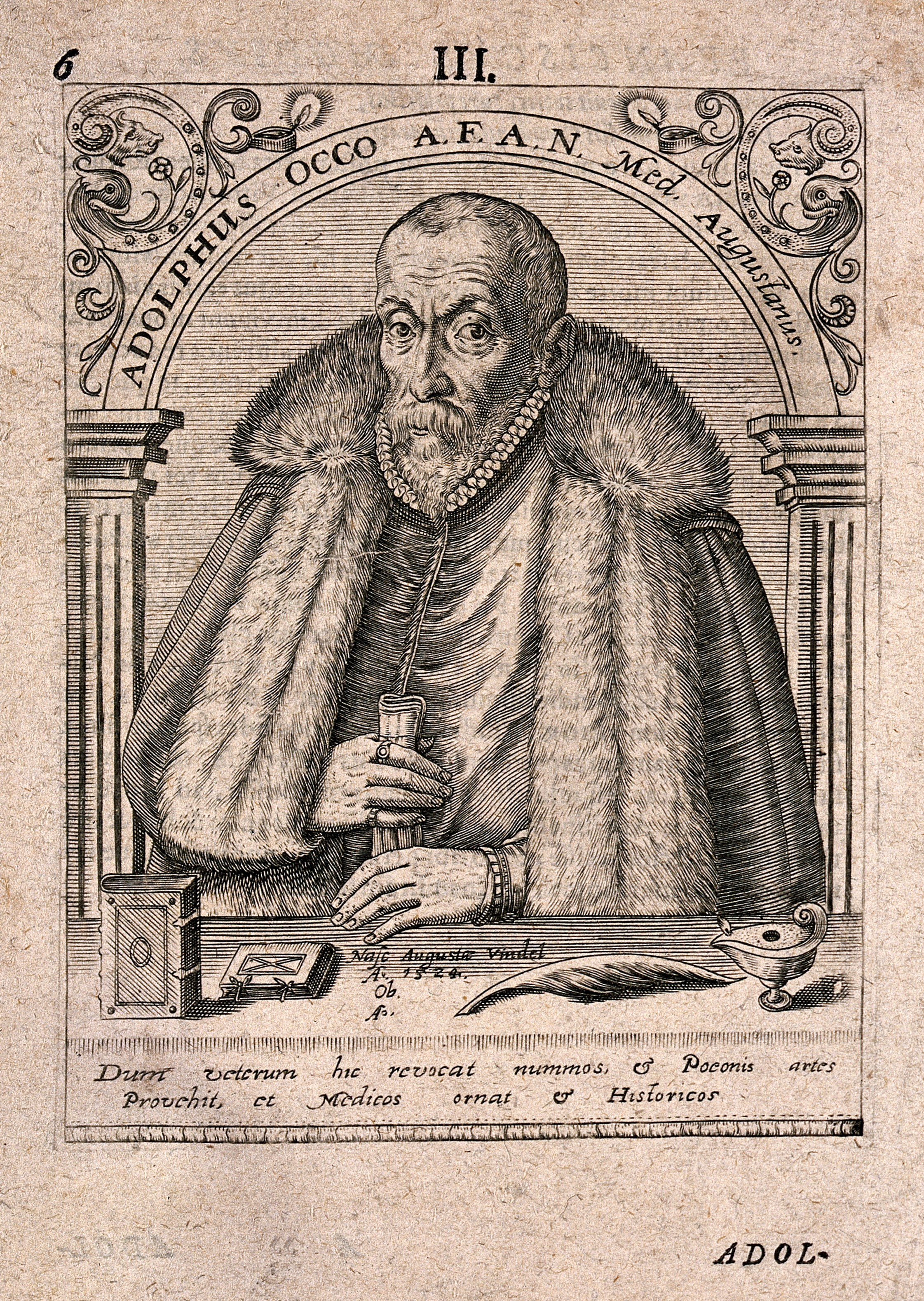 Adolph Occo III. Line engraving by T. de Bry after A. de Hel. Iconographic Collections Keywords: portrait prints; Adolph Occo; engravings; Theodore de Bry; A. de Hel